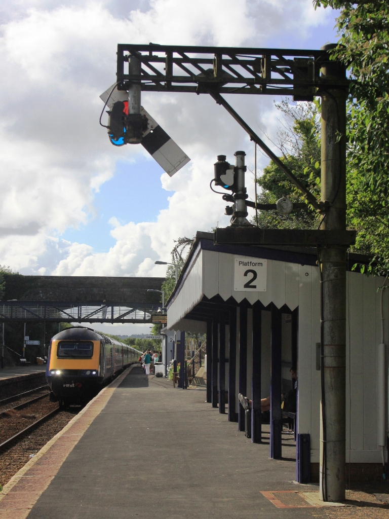 The semaphore signal on the up platform at Liskeard in Cornwall is this 'gallows' design so that it can be seen it below the canopy of the waiting shelter. In this view First Great Western's 43133 is approaching with a train for London.